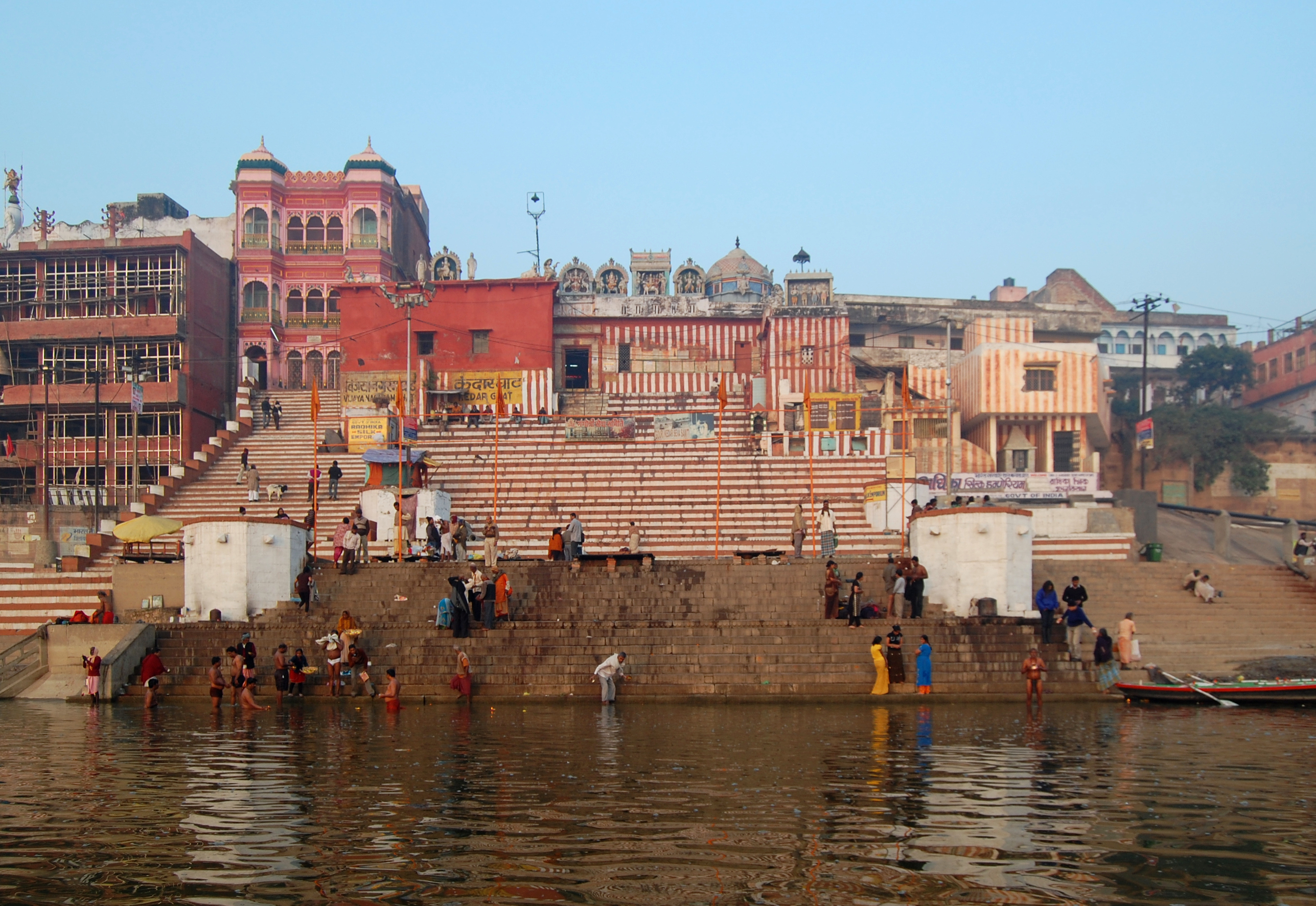 Varansi, India as seen from Ganga river.